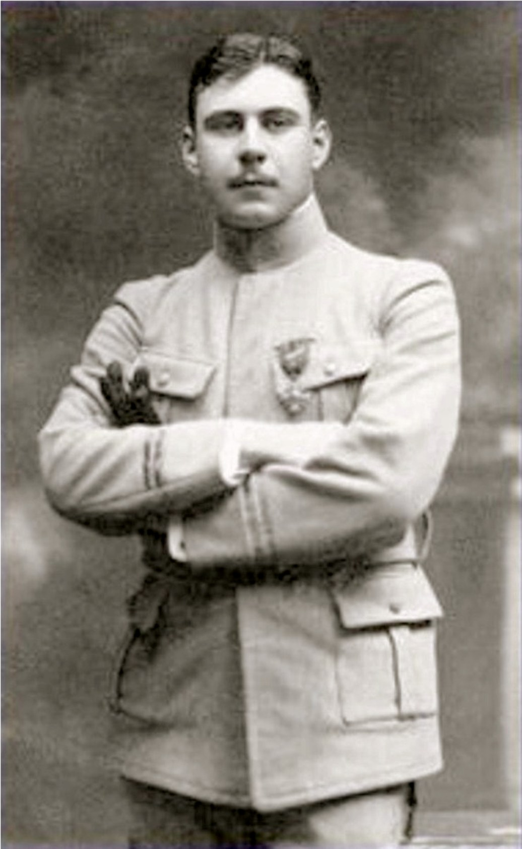 Lionel Arthur Marie Ange Lemoël, son of Arthur Jules Marie Lemoël (1858 -1918), superior commander of the carabiniers of the Prince Albert I of Monaco and Louise Euphémie Marie Courteille (1869-1950), was born in Brest (department of Finistère) on 8 December 1892 and Death for France, on 11 March 1916 in Cumières in the Bois des Corbeaux, in the department of Meuse. Lionel Lemoël was the rapporteur of the Republic at the trial and execution of Second Lieutenant Jean-Julien Chapelant (1891-1914), accused of surrender in the open countryside. He received the Croix de guerre with Palms in 1915. Lionel Lemoël is the natural grandson of Lord Charles Henry Lionel Widdrington Standish (1823-1883).